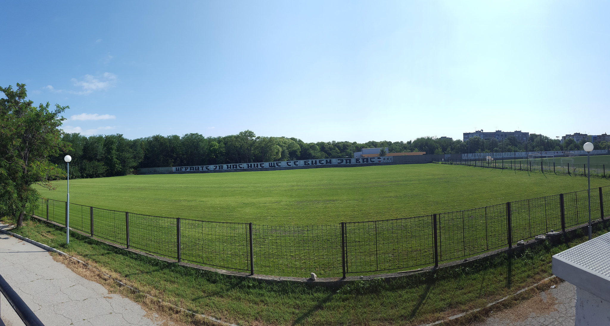 Training ground of Lokomotiv Plovdiv